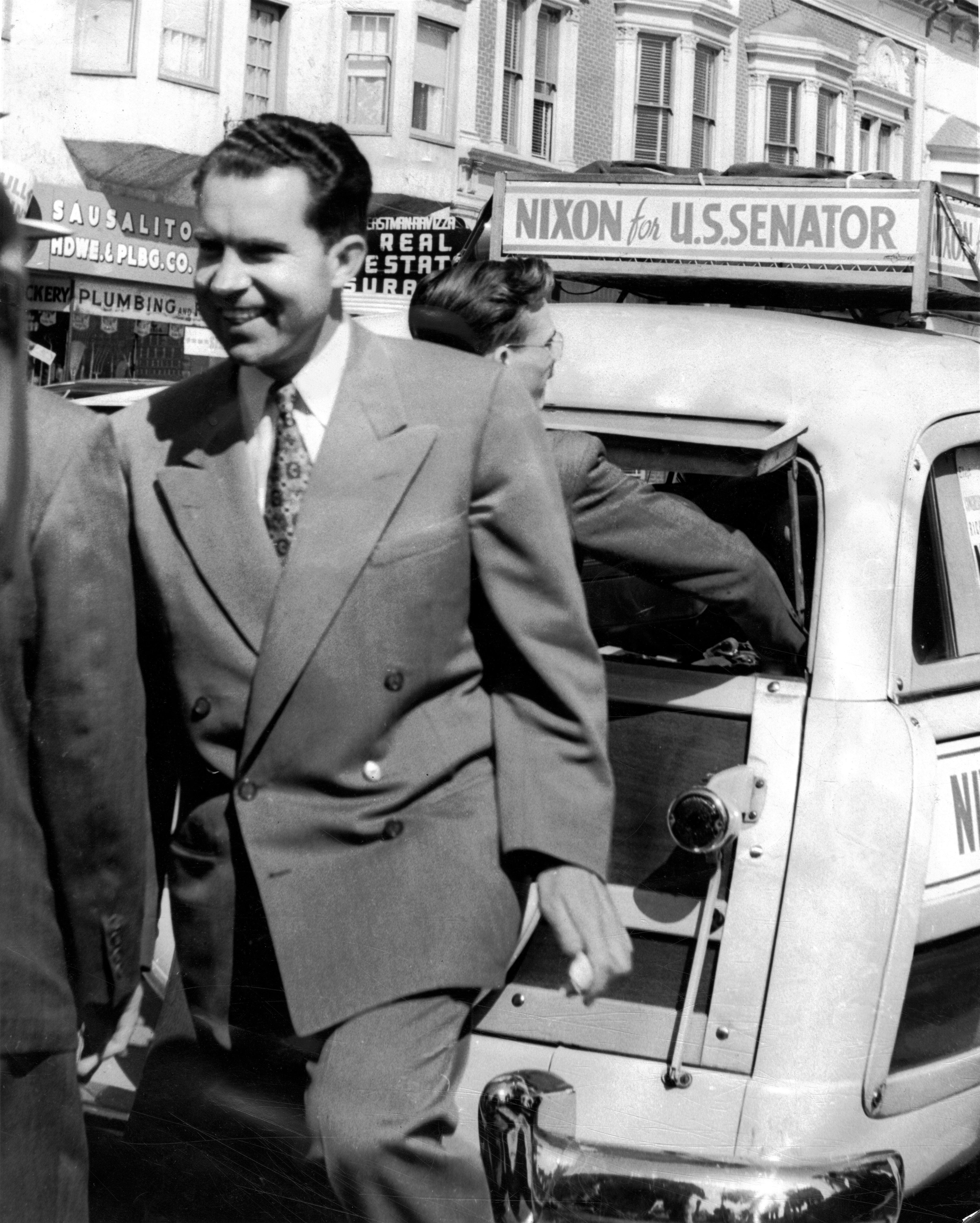 Richard Nixon campaigns in Sausalito, Calif during the primary campaign of the 1950 Senate race.